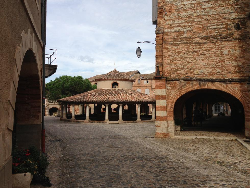 A view of the center of Auvillar, a village in the department of Tarn-et-Garonne. The rare circular grain market is at center.